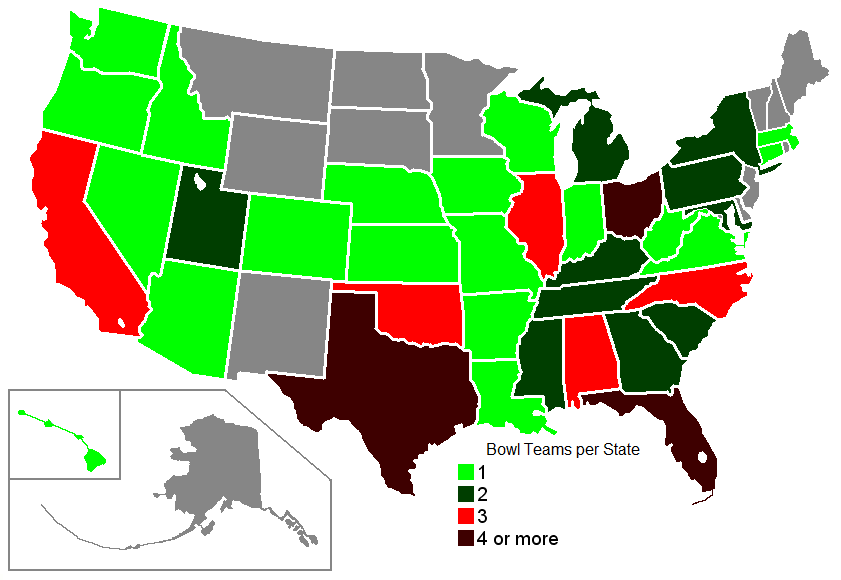 Map of 2010-11 NCAA bowl teams per state.